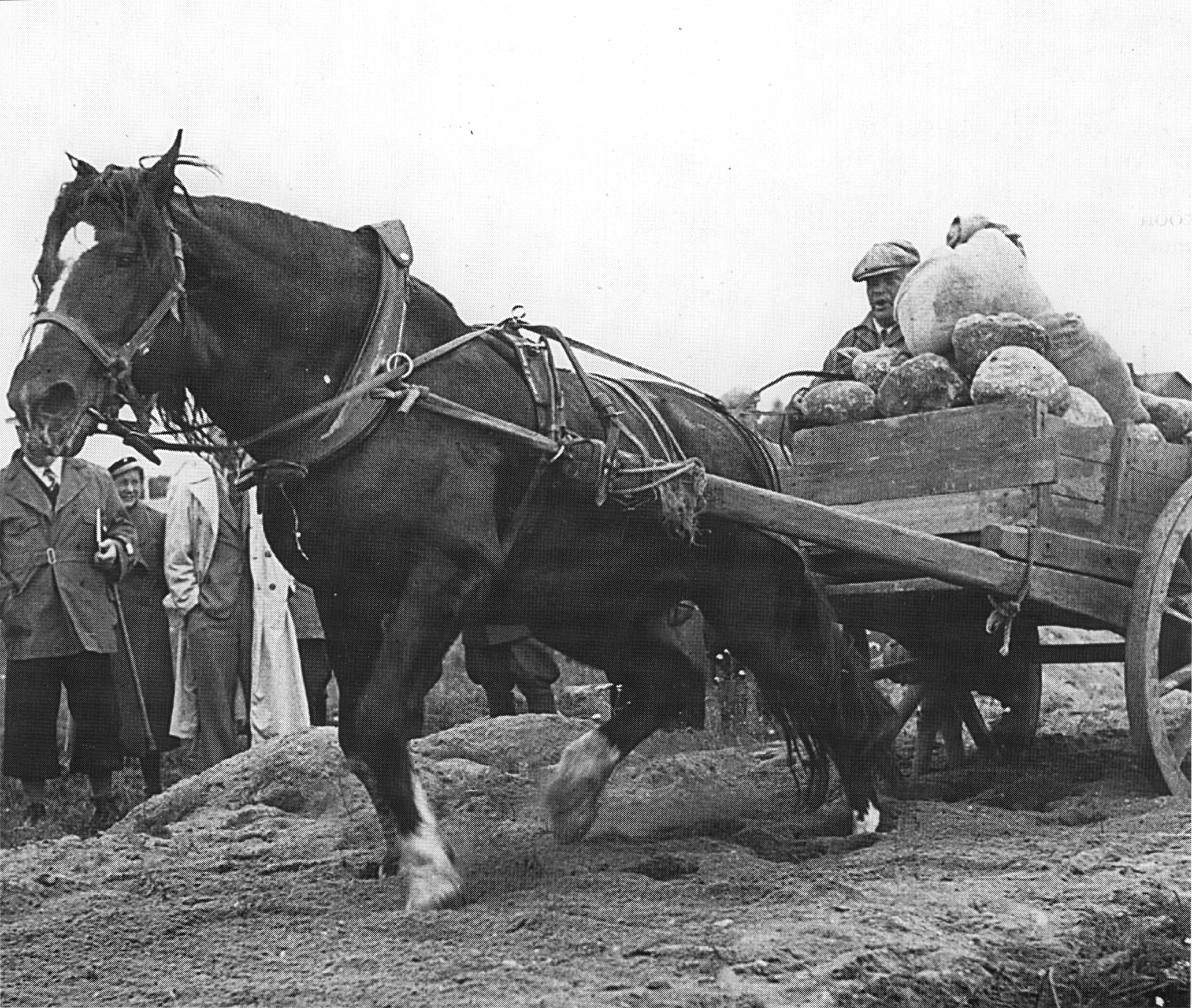 Finnhorse Stallion Murron-Ryhti 3531 in a horse pulling competition, pulling a cart loaded with stones, in sand.